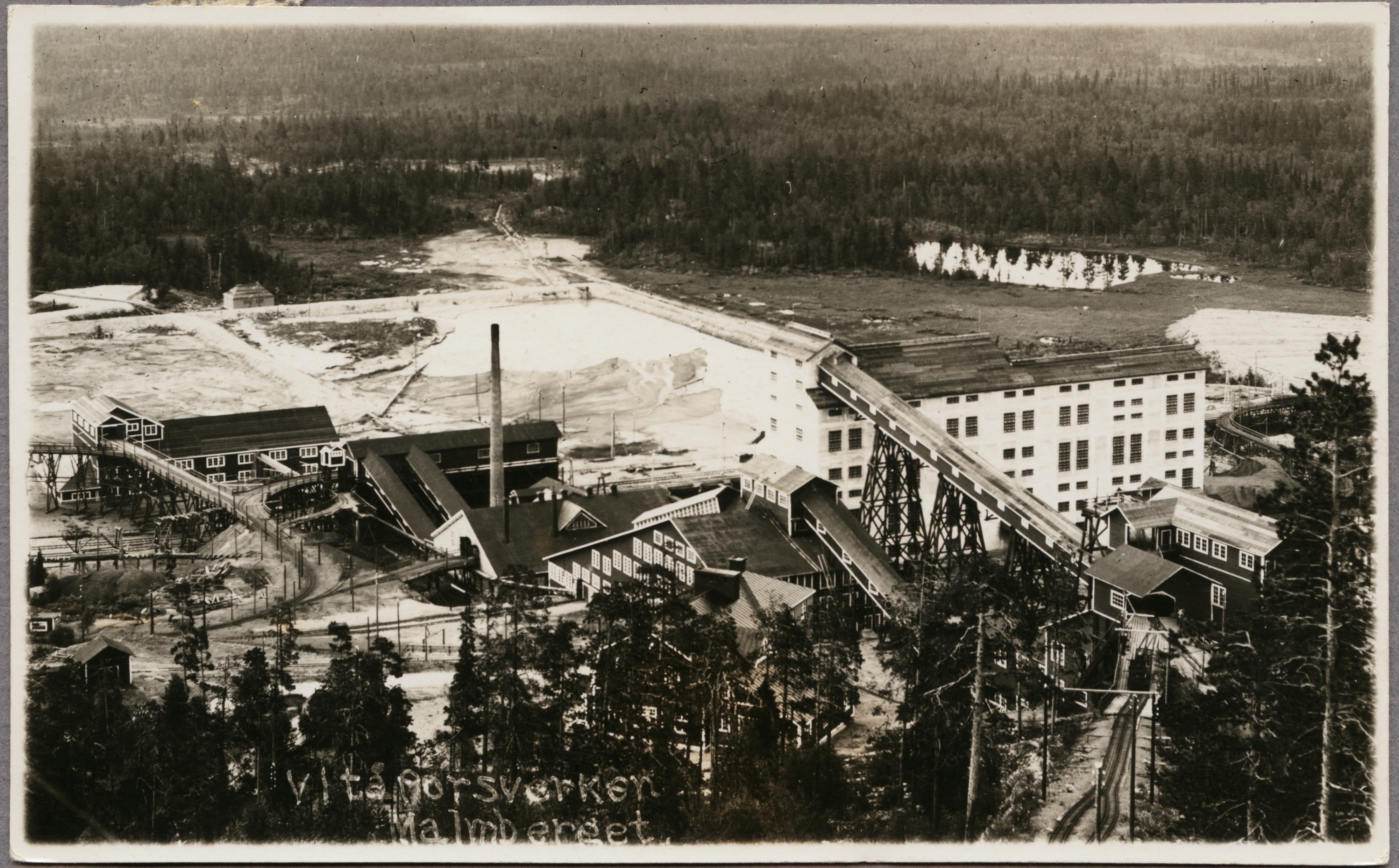 The concentrator plant in Vitåfors in Malmberget